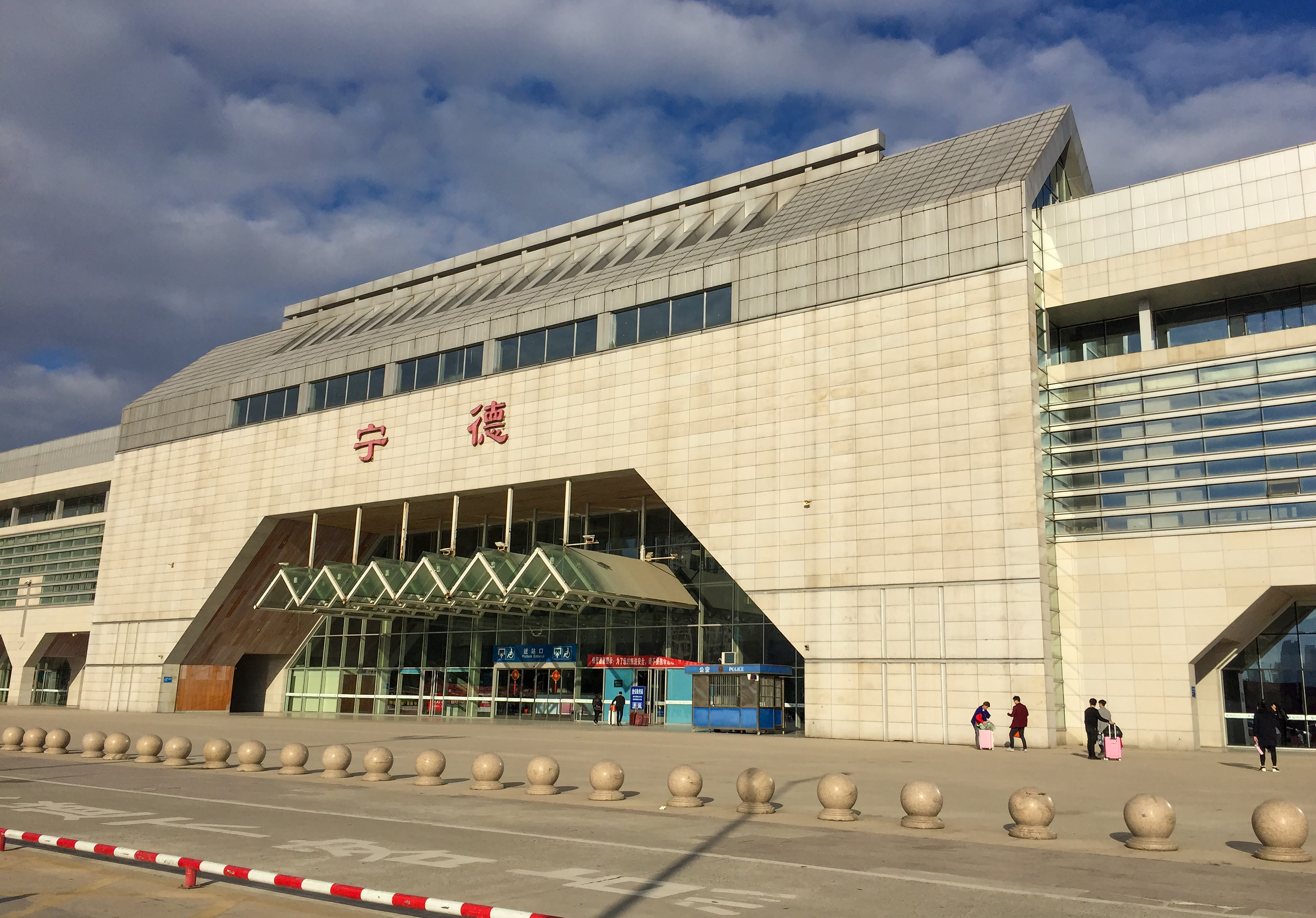 CAVOK in Ningde, where Xi served as chief in early 1990's.